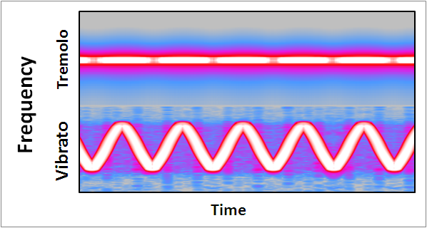 Created by Andrew Johnson using audacity for spectrograph and excel for graph titles